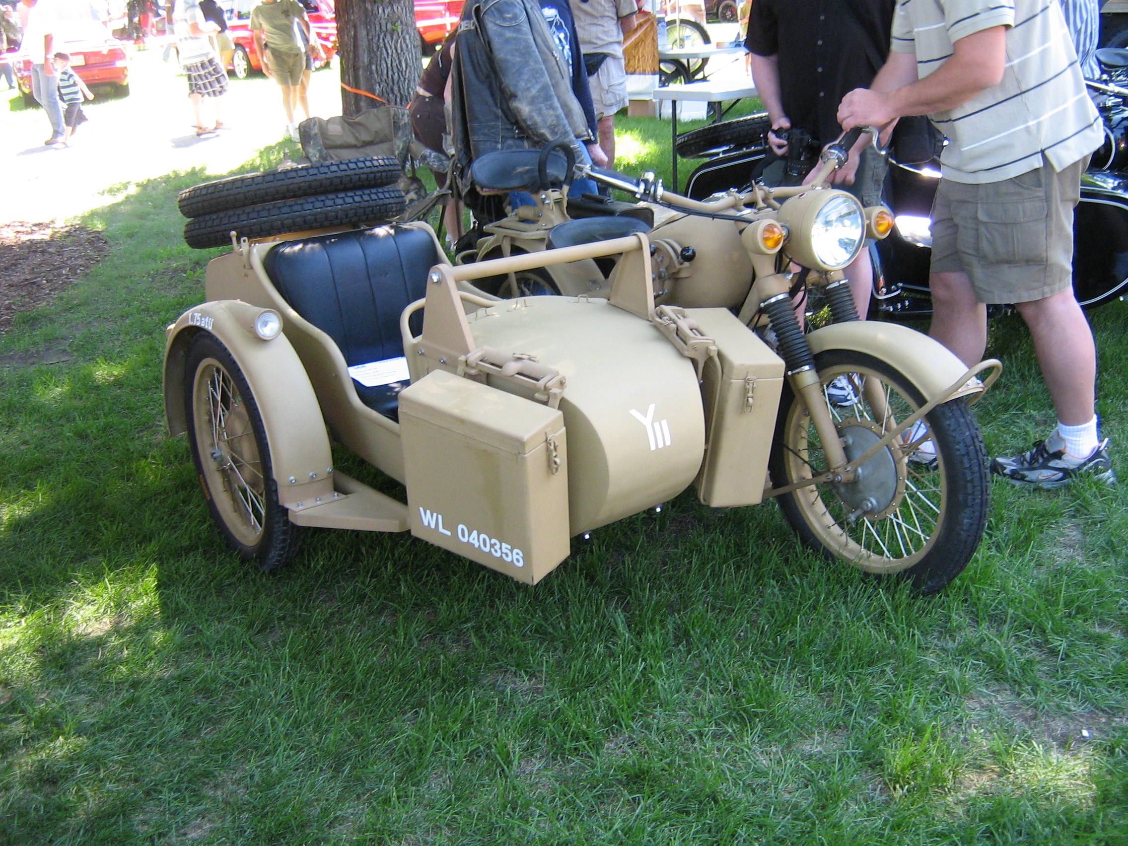 1982 Chang Jiang with CJ 750 Sidecar - a Chinese replica of a BMW R71 classic motor cycle. Tooling was sold to the Russians who later traded it to the Chinese.